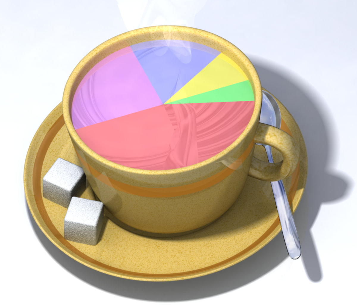 Illustration of the relative portions of the price of coffee